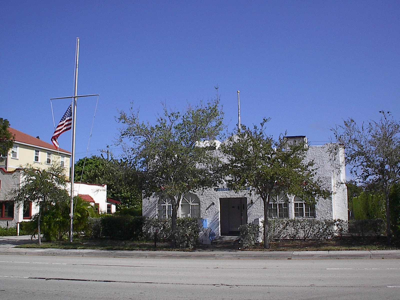 Photograph taken by Donald Albury (User:Dalbury) on January 16, 2007. I am licensing the image under GFDL.